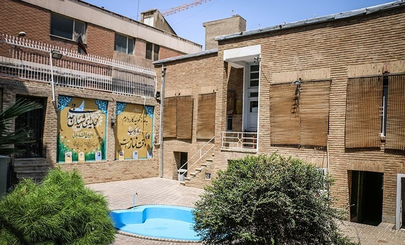 Mohammad Ali Rajai Museum